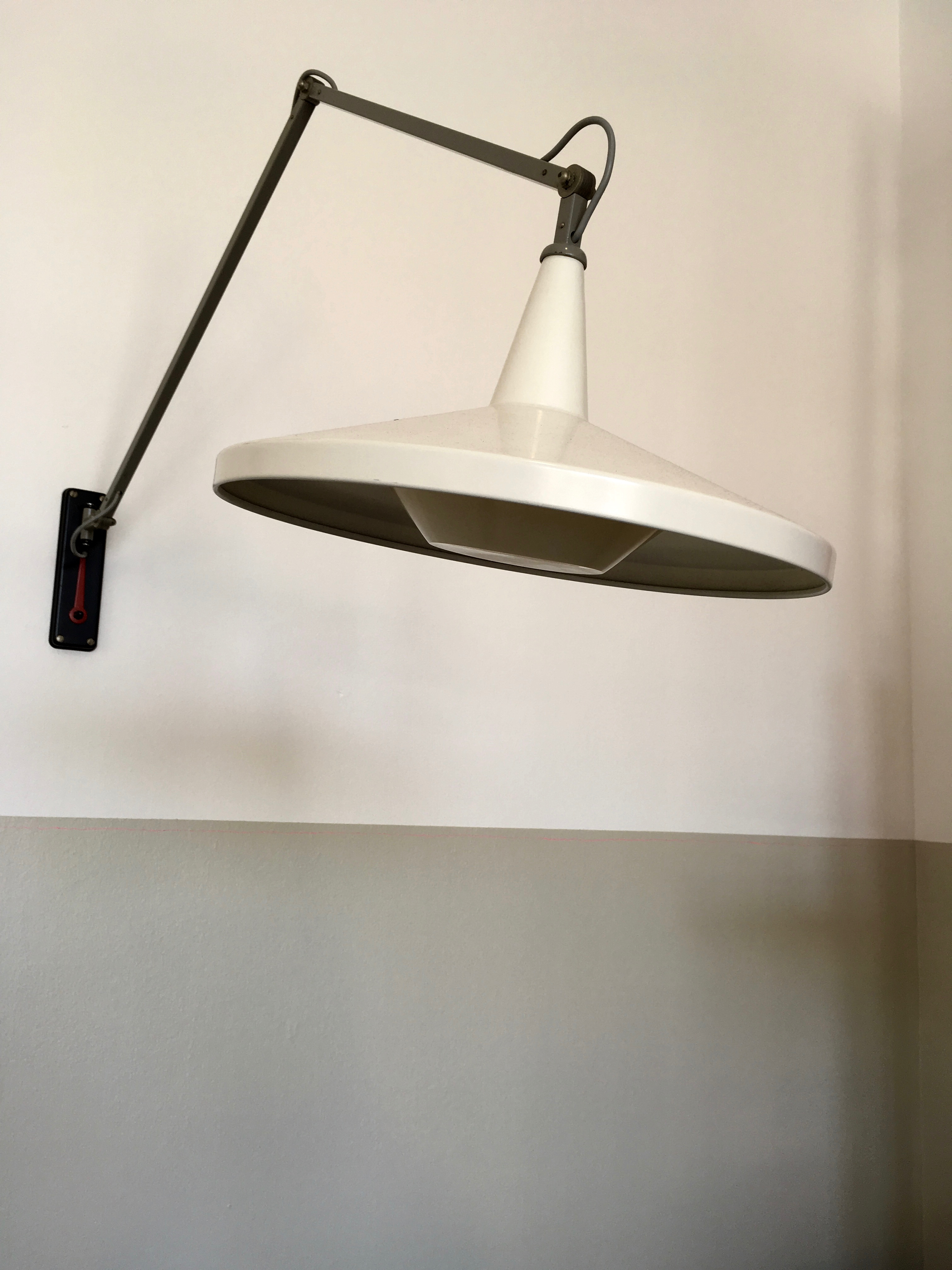 Wim Rietveld - Panama lamp - 1953 - Collection Museum Boijmans Van Beuningen, inv. nr. V 1008 (KN&V). Produced by Gispen.